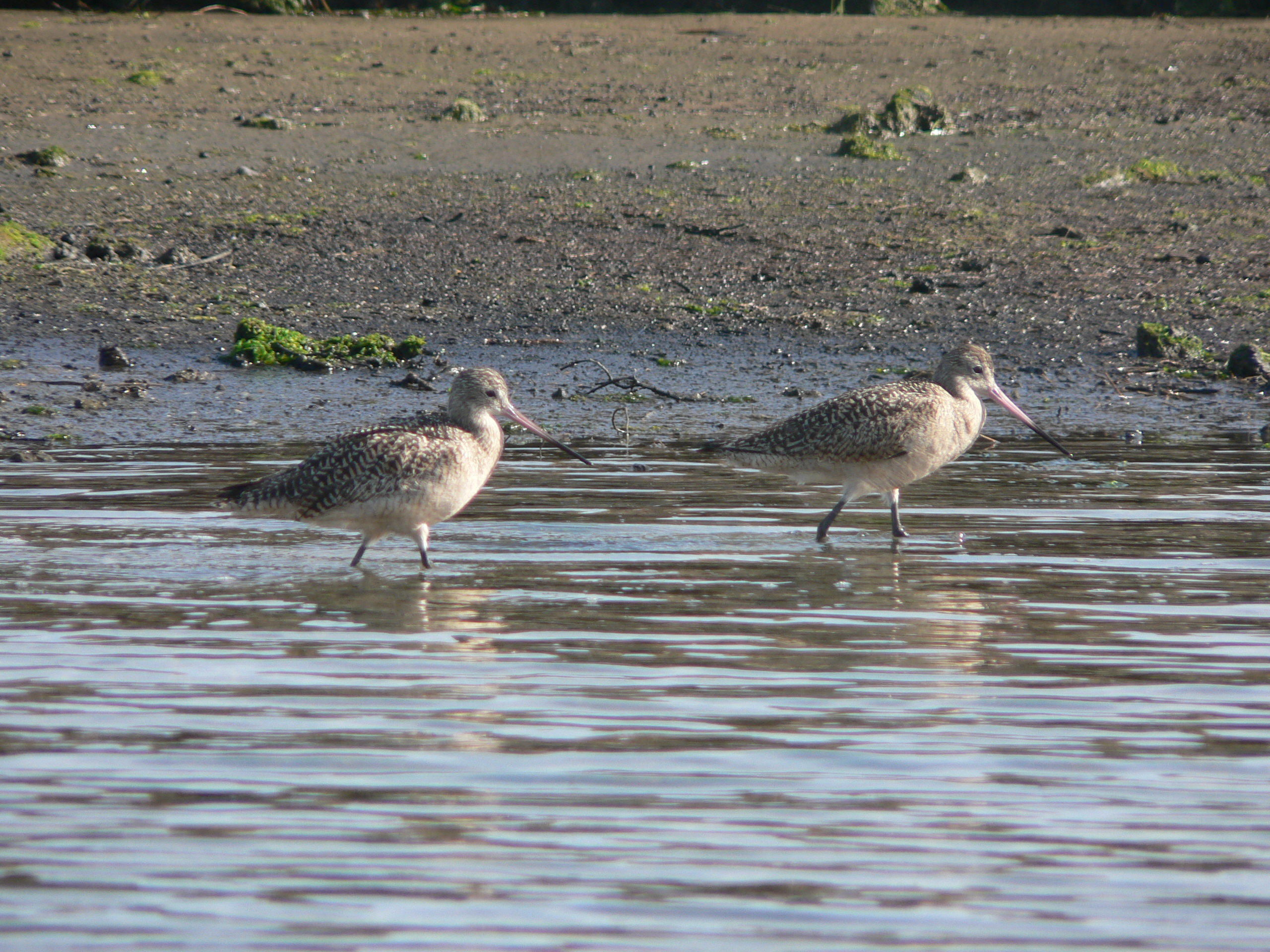 Limosa fedoa, Elkhorn Slough, Monterey Bay, California, USA